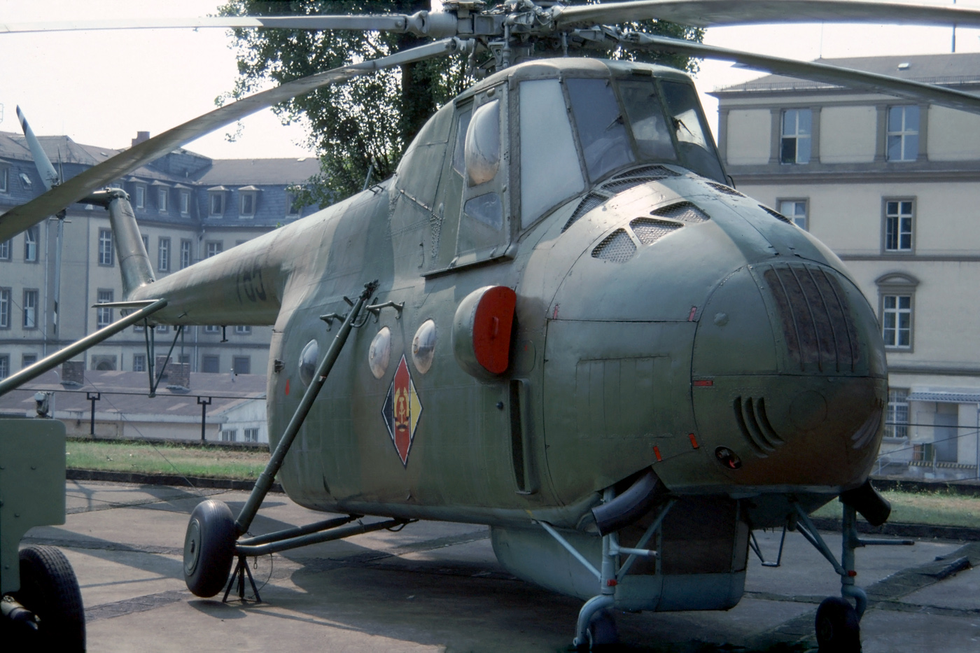 Militärhistorisches Museum Dresden, August 1990. 785 is a false number, it's actually 792. It's now in the museum at Cottbus.